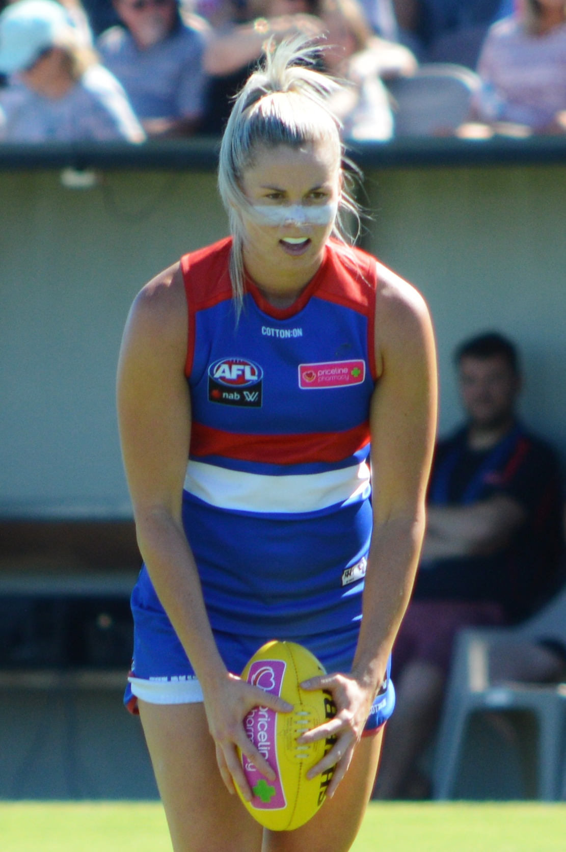 Katie Brennan during the round 1, 2018 AFL Women's match between the Western Bulldogs and Fremantle.